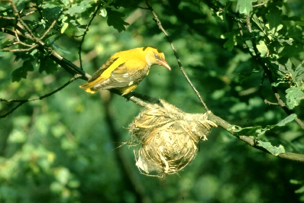 Golden Oriole with its suspended nest